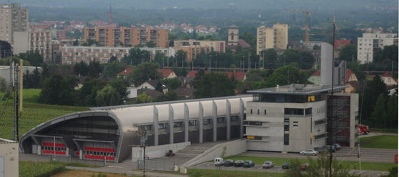 Station of the firemen of Saint-Louis